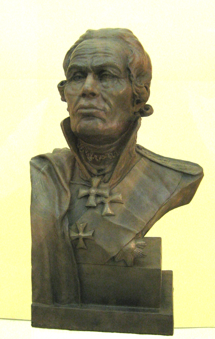 Forensic facial reconstruction of admiral Fyodor Ushakov, made by M. Gerasimov, 1945